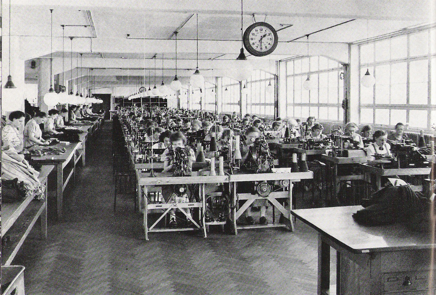 sewing about 1935